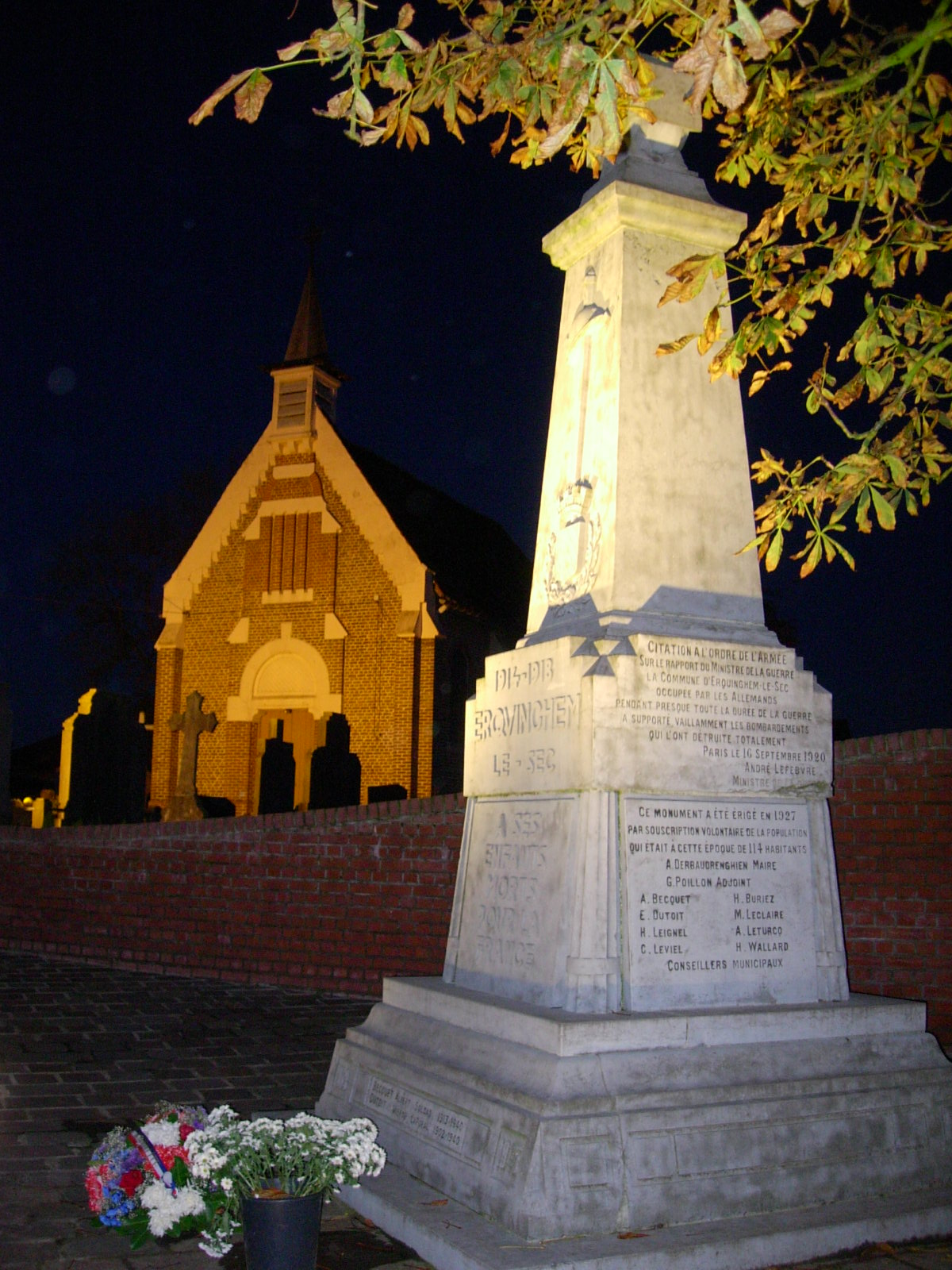 Saint-Vaast Church and War Memorial